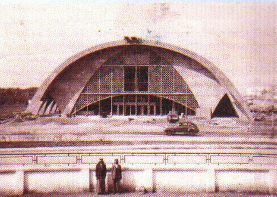 Nasiriyah Bahoo in 1962